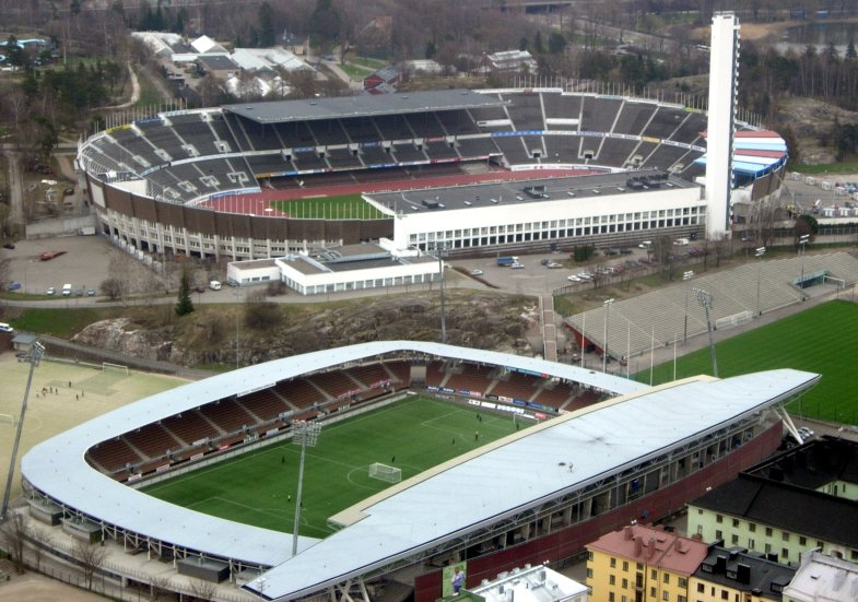 Finnair Stadium (later Sonera Stadium) on the foreground and Helsinki Olympic Stadium on the background, in Helsinki, Finland.